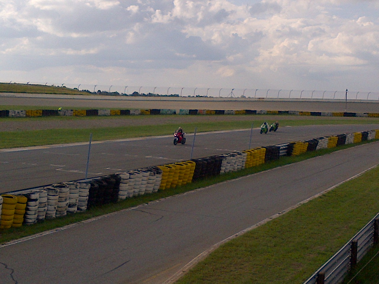 Phakisa Raceway Other information Nil